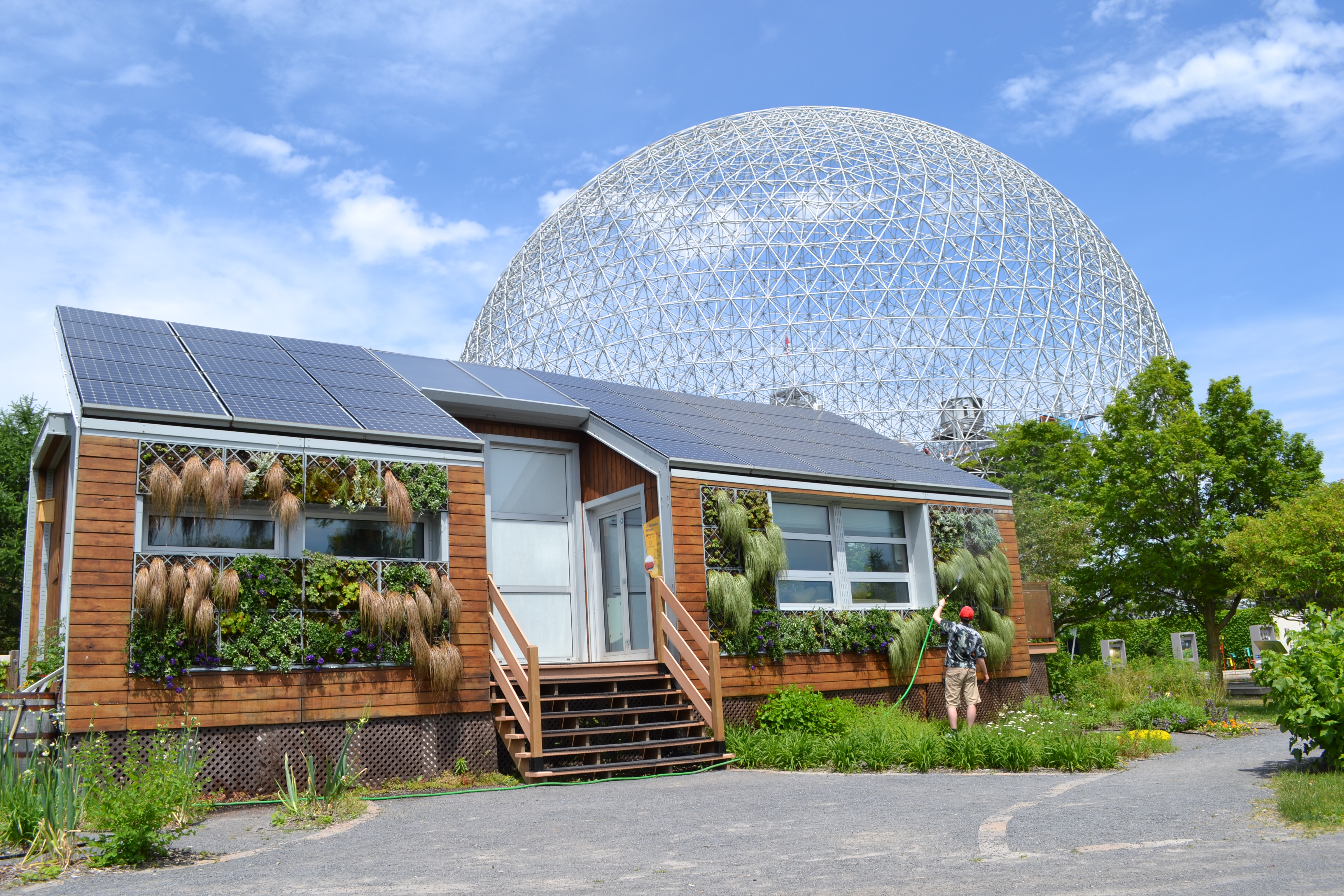 The Ecoological Solar House is located on the Saint Helen's Island, Montreal, Canada. The solar house was designed by students of McGill University, University of Montreal and the École de technologie supérieure in the context of international competition Solar Decathlon 2007 in Washington, DC. The Ecoological Solar House, Environment Canada.